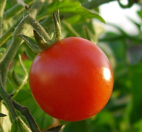 A tomato on its stem.